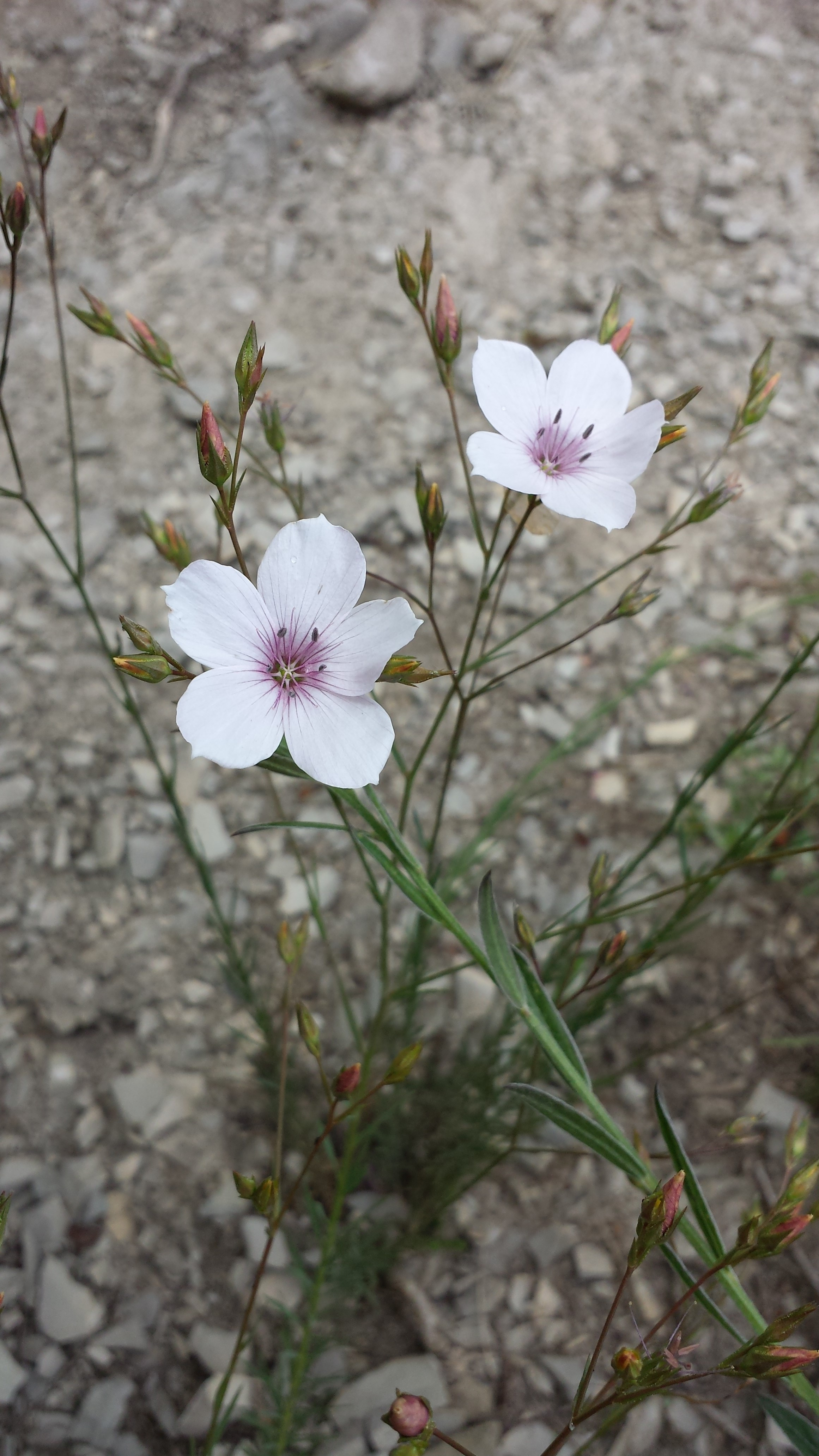 Habitus Taxon: Linum tenuifolium (sensu Fischer et al. EfÖLS 2008 ISBN 978-3-85474-187-9) Location: west slope of Bisamberg, district Korneuburg, Lower Austria - ca. 300 m a.s.l. Habitat: rock steppe (Flysch)